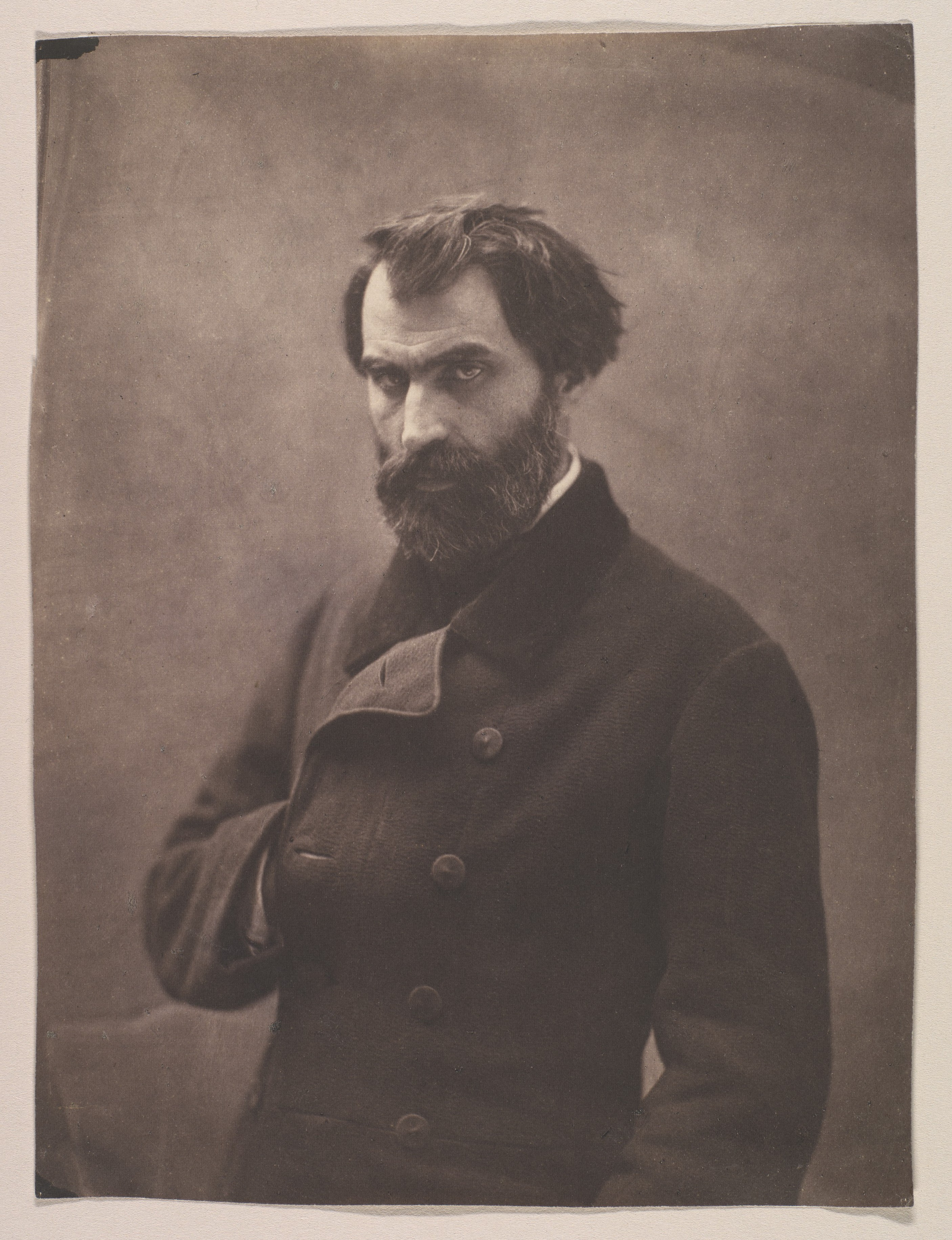 Salted paper print from glass negative : Nadar (French, Paris 1820–1910 Paris)